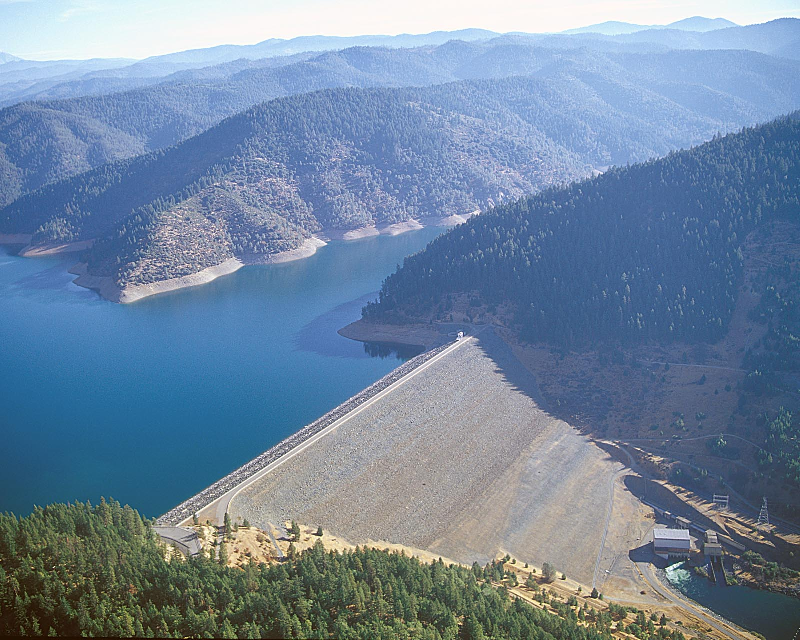 Trinity Dam in California, 2004.